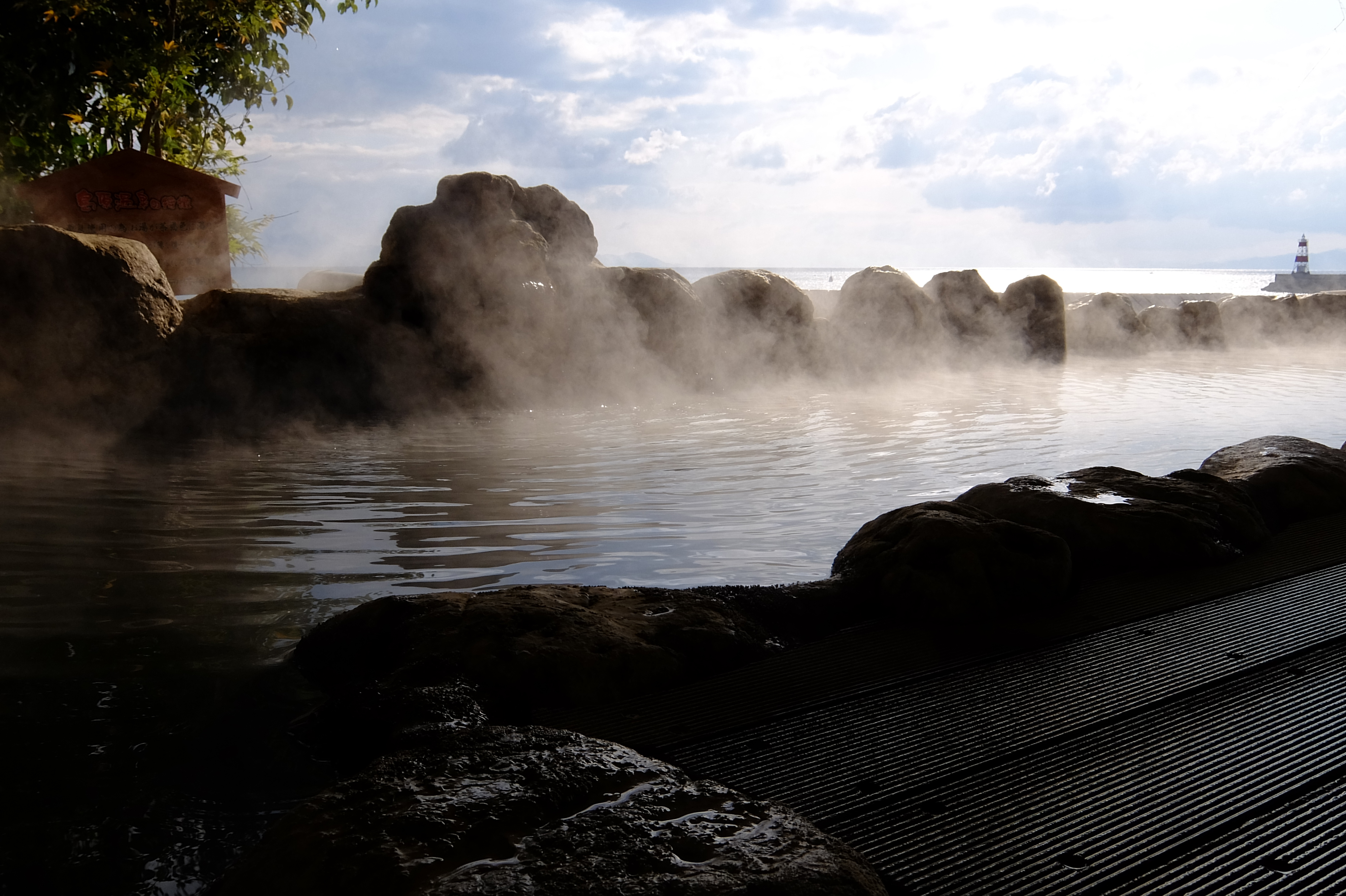 Shimabara Onsen Hotel Nampuro in Shimabara, Nagasaki prefecture, Japan.